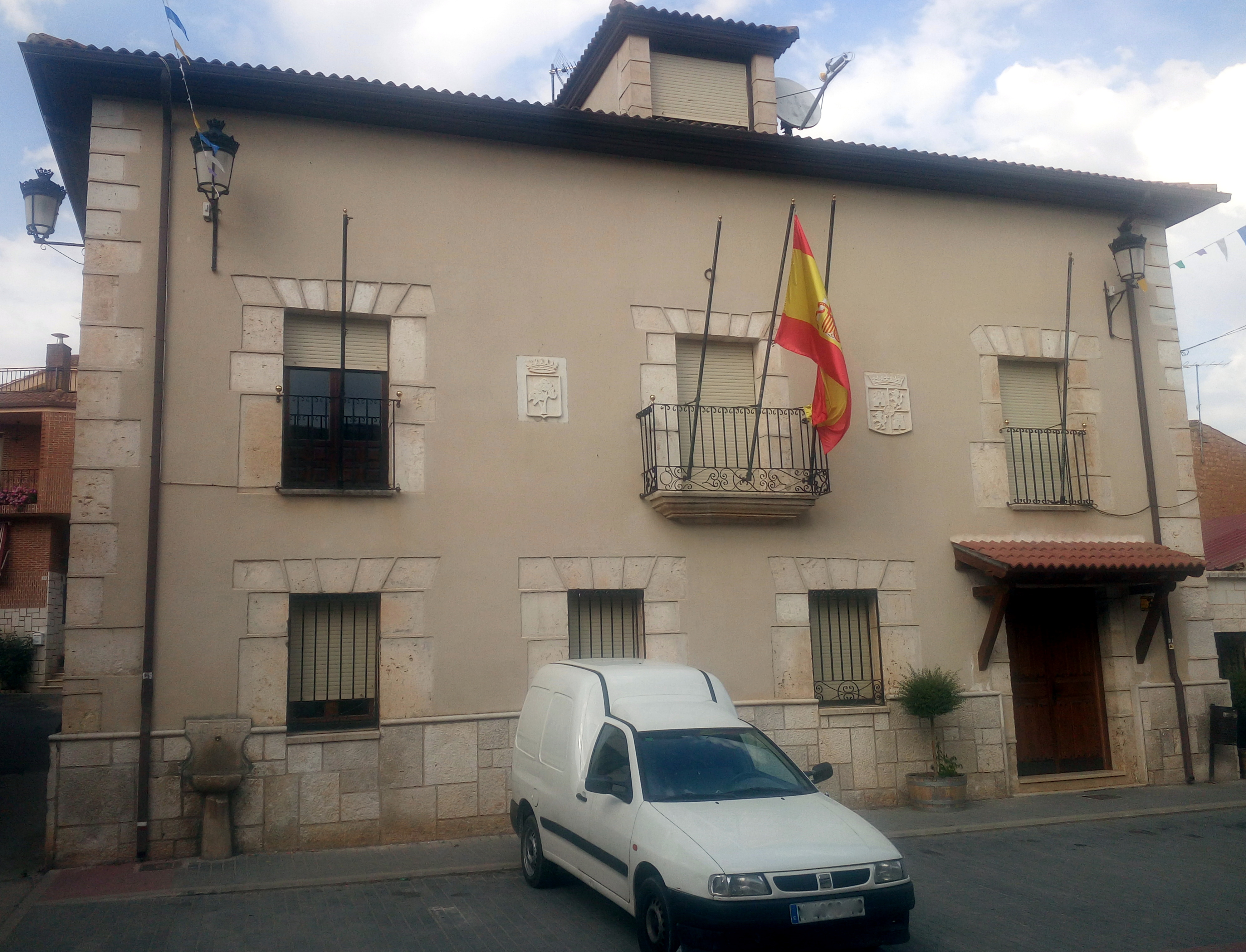 Town hall in Castrillo de la Vega, Burgos, Spain.